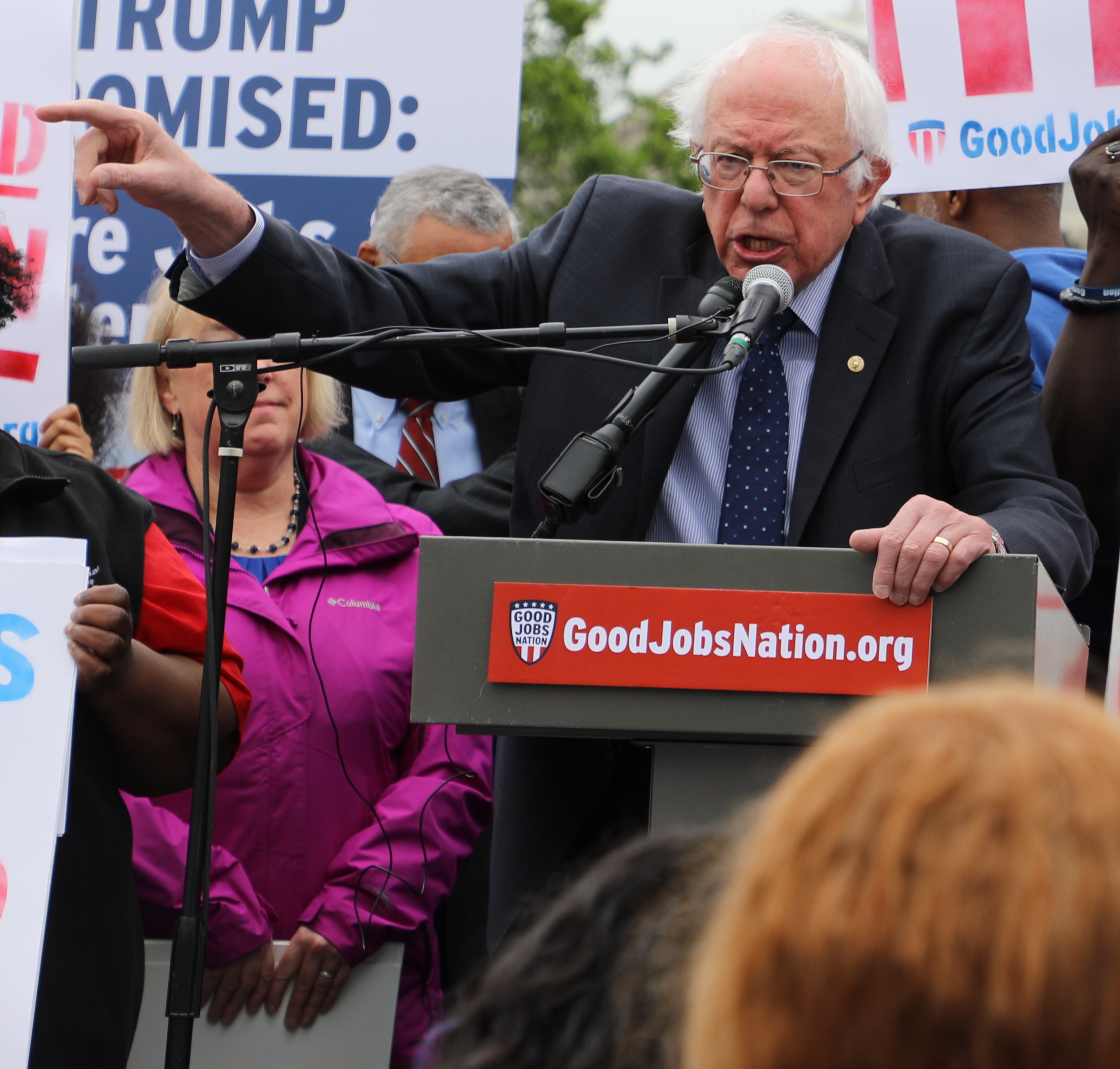 Days after President Donald Trump released a budget that would slash support for working families, Sens. Bernie Sanders (I-Vt.), Patty Murray (D-Wash.) and Chuck Schumer (D-N.Y.), joined by 28 of their colleagues in the Senate, introduced legislation to raise the federal minimum wage to $15 an hour. Reps. Bobby Scott (D-Va.) and Keith Ellison (D-Minn.) introduced a companion bill Thursday with 152 cosponsors in the House. “Just a few short years ago, we were told that raising the minimum wage to $15 an hour was ‘radical.’ But a grassroots movement of millions of workers throughout this country refused to take ‘no’ for an answer,” Sanders said. “Our job in the wealthiest country in the history of the world is to make sure that every worker has at least a modest and decent standard of living.” The Raise the Wage Act would raise the minimum wage to $15 per hour by 2024 and would be indexed to median wage growth thereafter. This raise would increase the minimum wage higher than its 1968 peak. The federal minimum wage has not been raised since 2009.